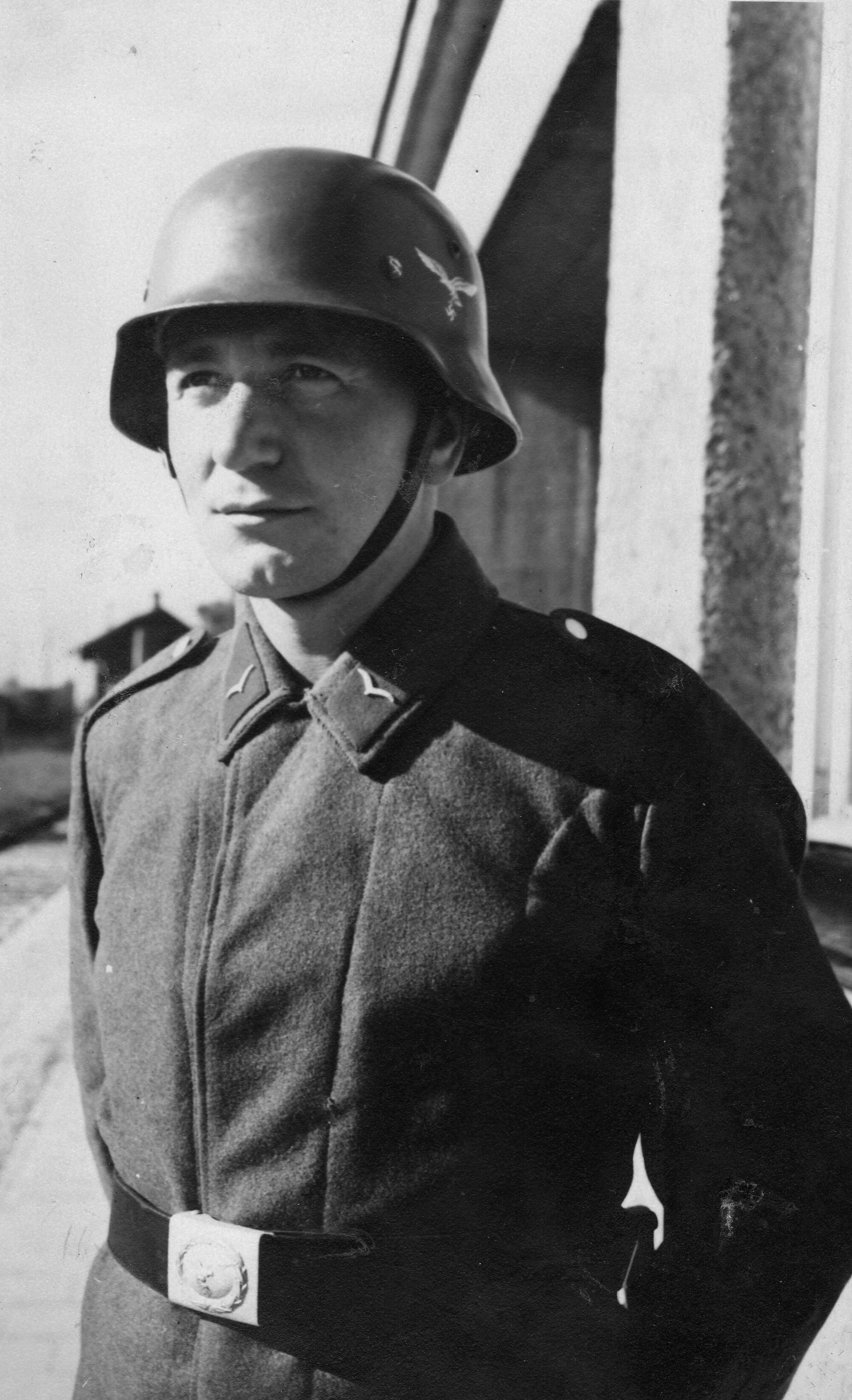 Johann Schediwy in German Wehrmacht uniform (rankː Flieger OR1) before being dismissed for being married to a "non Aryan".